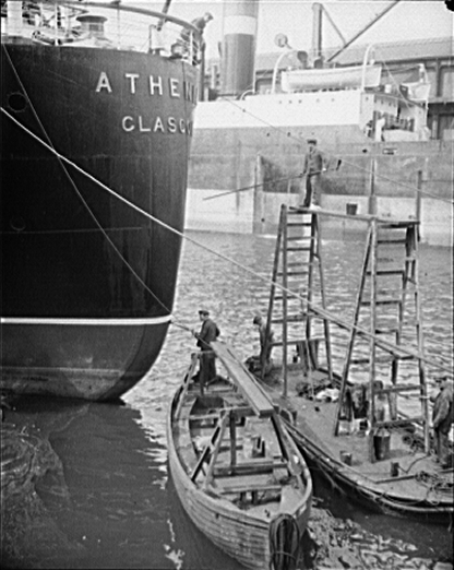 Workers painting the stern of the SS Athenia, the first British ship sunk during World War II.